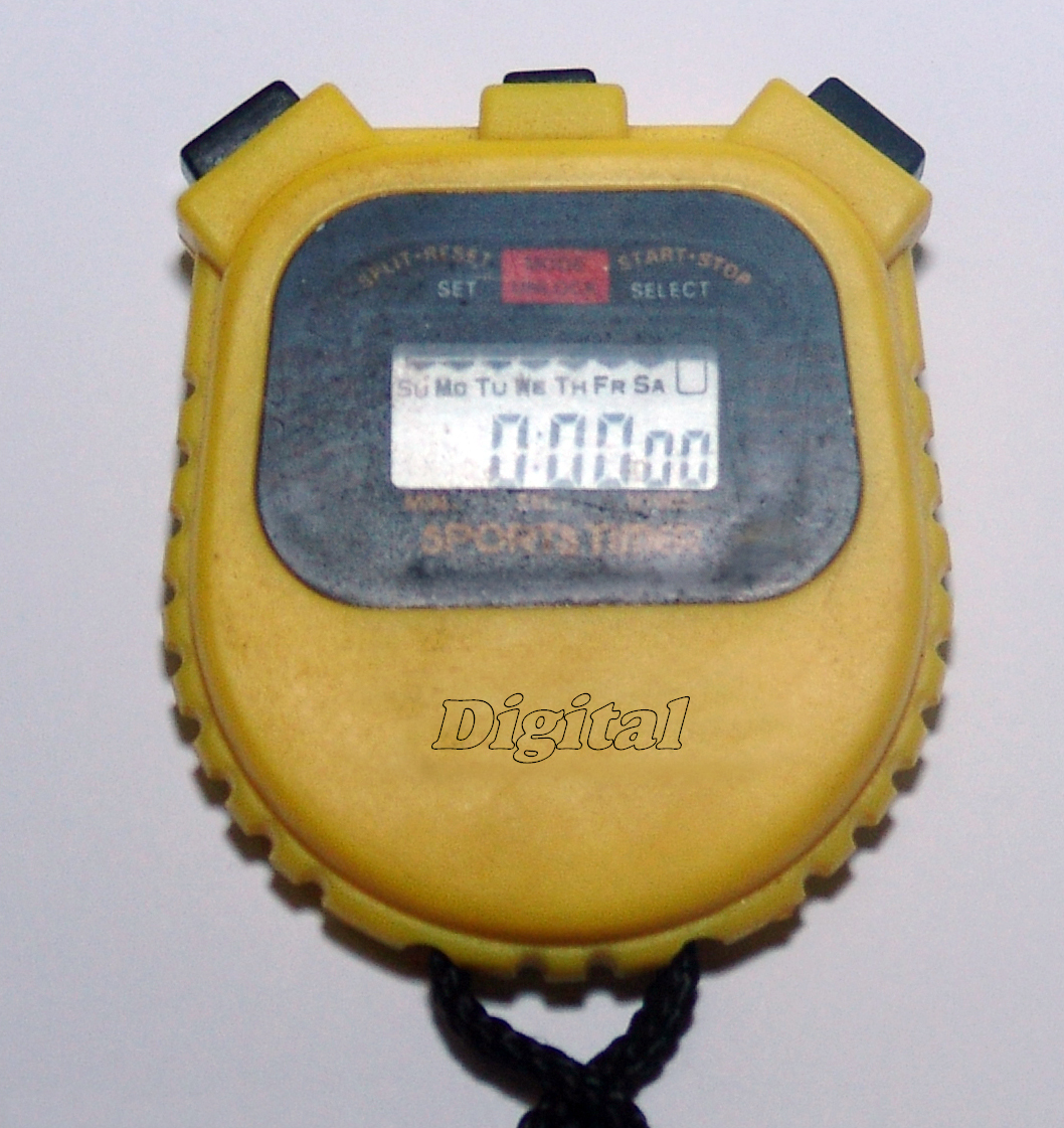 Cronógrafo digital See:Cronometer See:Chronograph